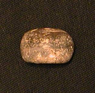 Unprovenanced stone pim weight (side-view photo) in private collection.